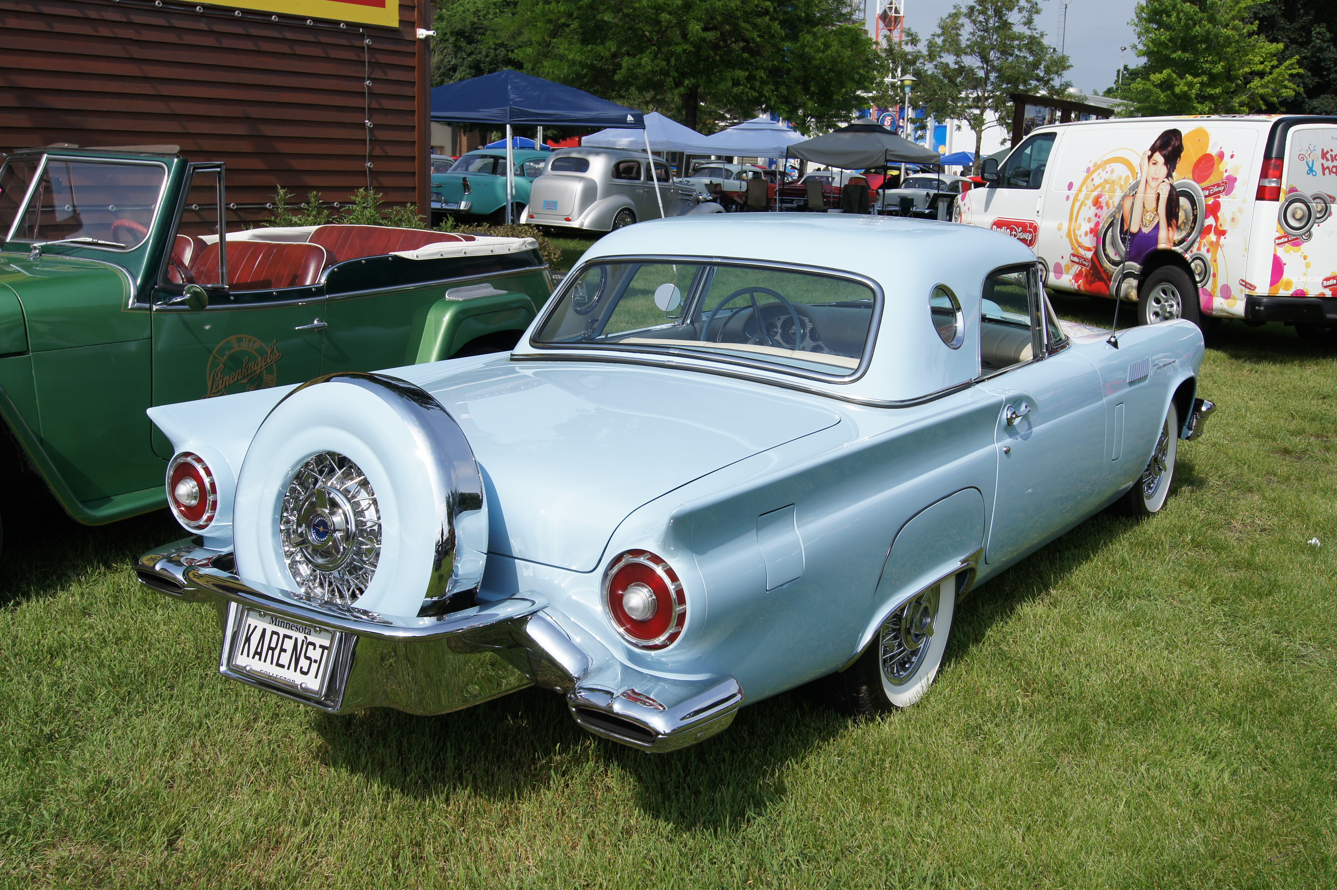 MSRA “BACK TO THE 50′s” 40th ANNIVERSARY June 21-23, 2013 State Fairgrounds St. Paul Minnesota More Car Pictures